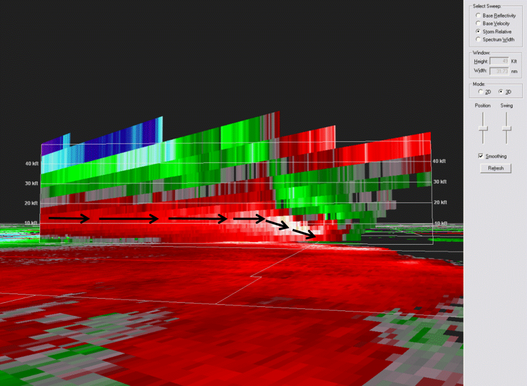 A rear inflow jet a mesoscale jet that transports air from the mid levels of the atmosphere to the front of the storm. This dry mid-level air evaporates the precipitation on the backside of the storm, creating the rear inflow notch. The cross section using storm relative velocity data illustrates the rear inflow jet, with the black arrows tracing the path of the winds through the storm.